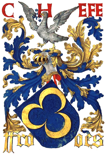 Public domain work, carrying can be used in online articles search.